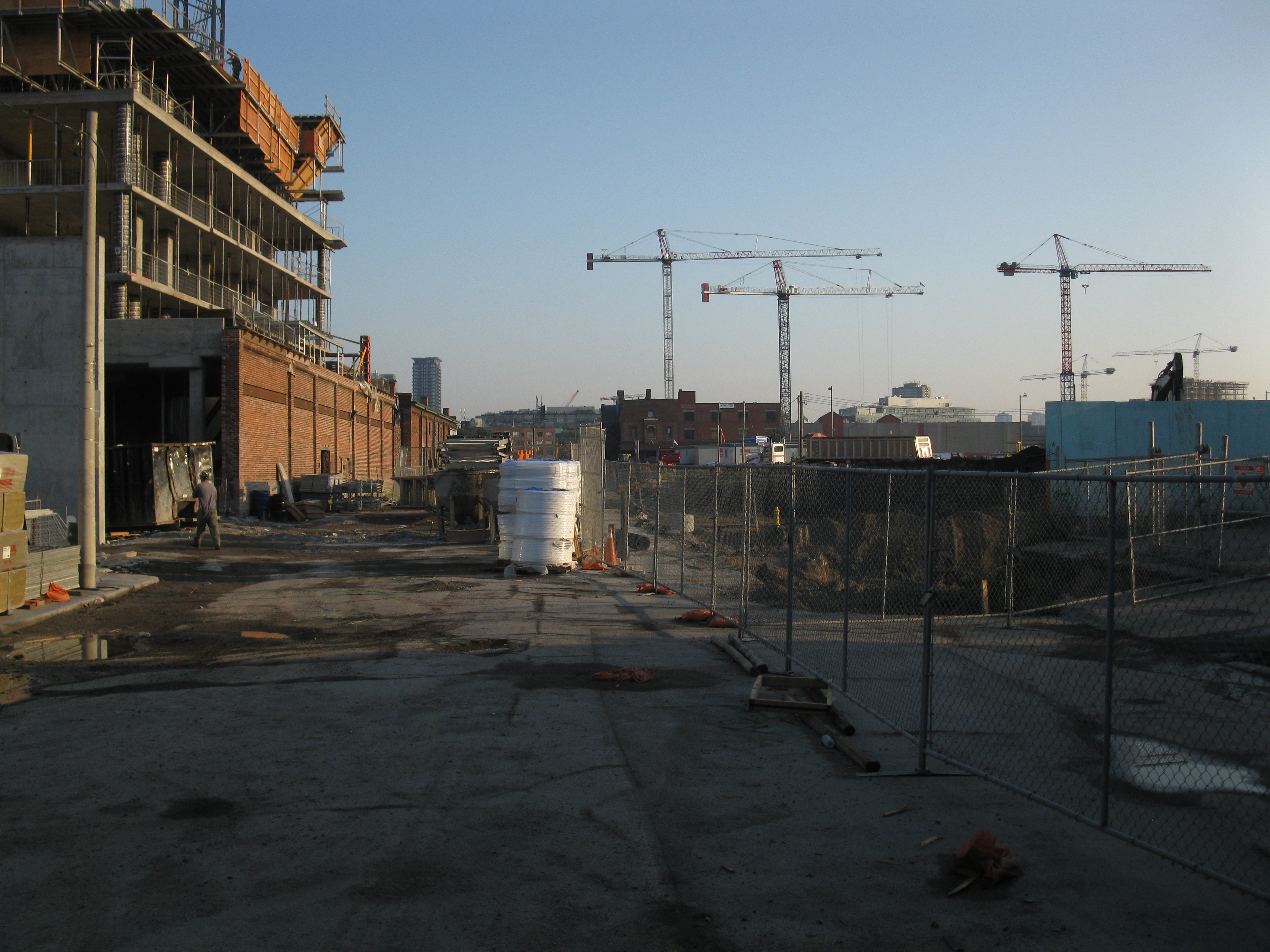 Constructing the streetcar tracks on Cherry Street -- 2012 07 23 -a.